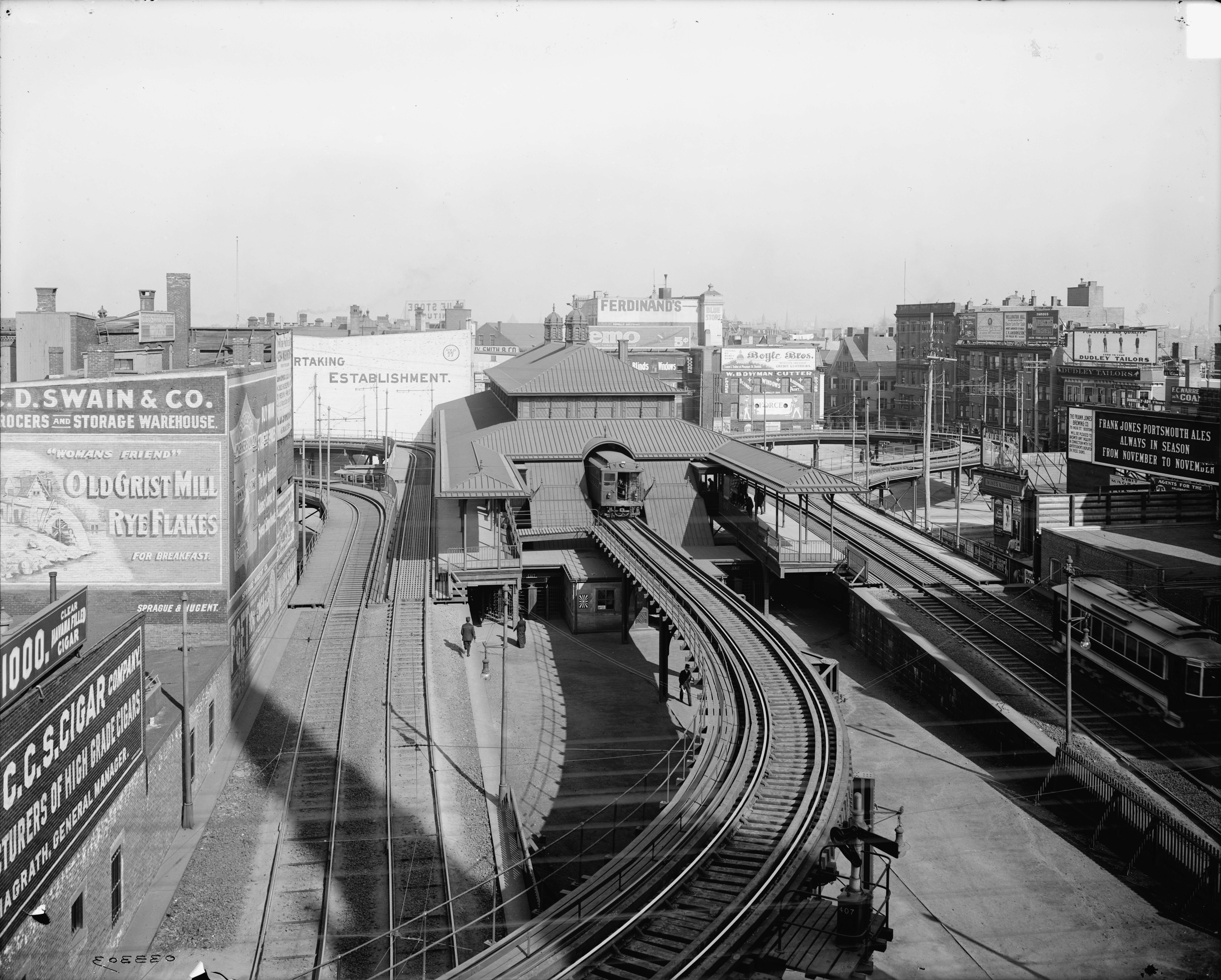 Dudley station on the Boston Elevated Railway, northbound side, with the streetcar loops on both sides